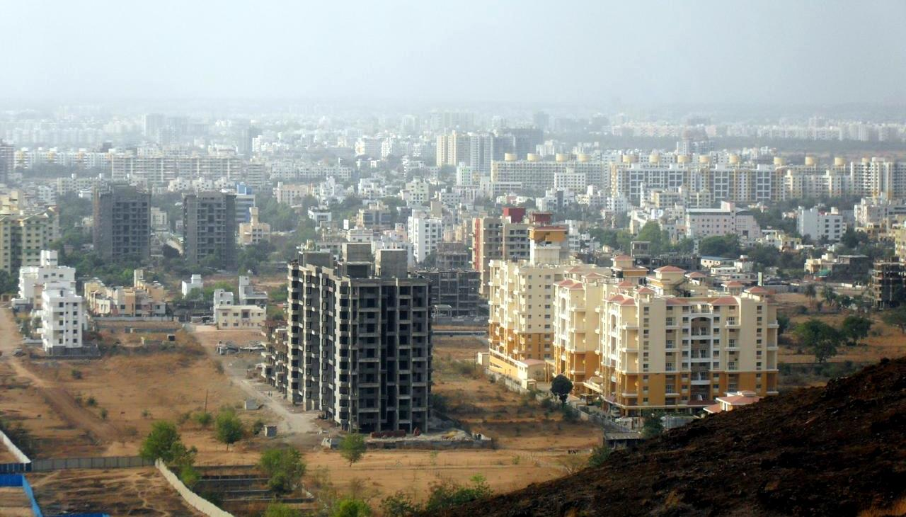 Baner viewed from Baner-Pashan Biodiversity Park